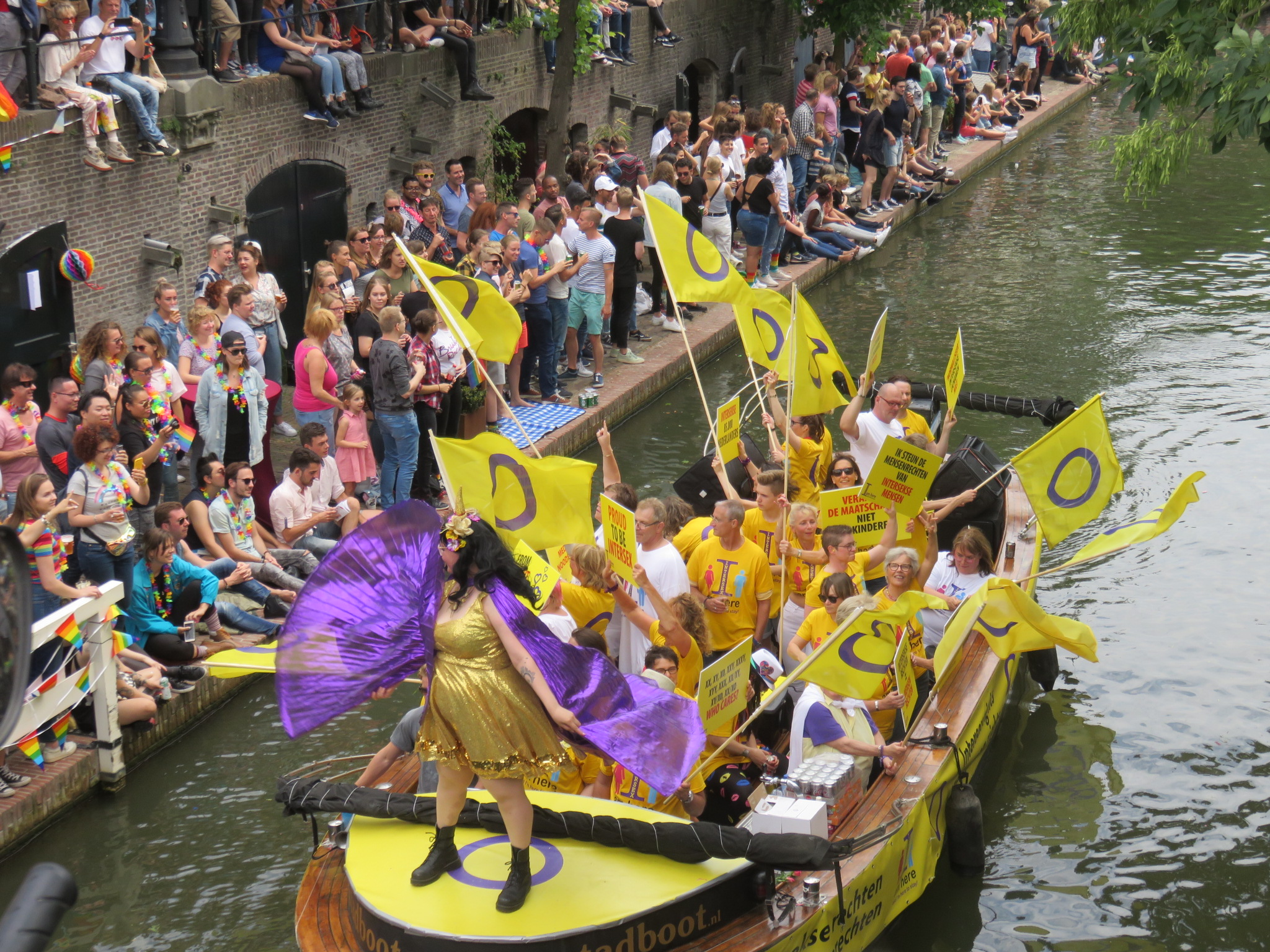 Boat of people with intersex condition participating in the secnd edition of the Utrecht Canal Pride on June 16, 2018.